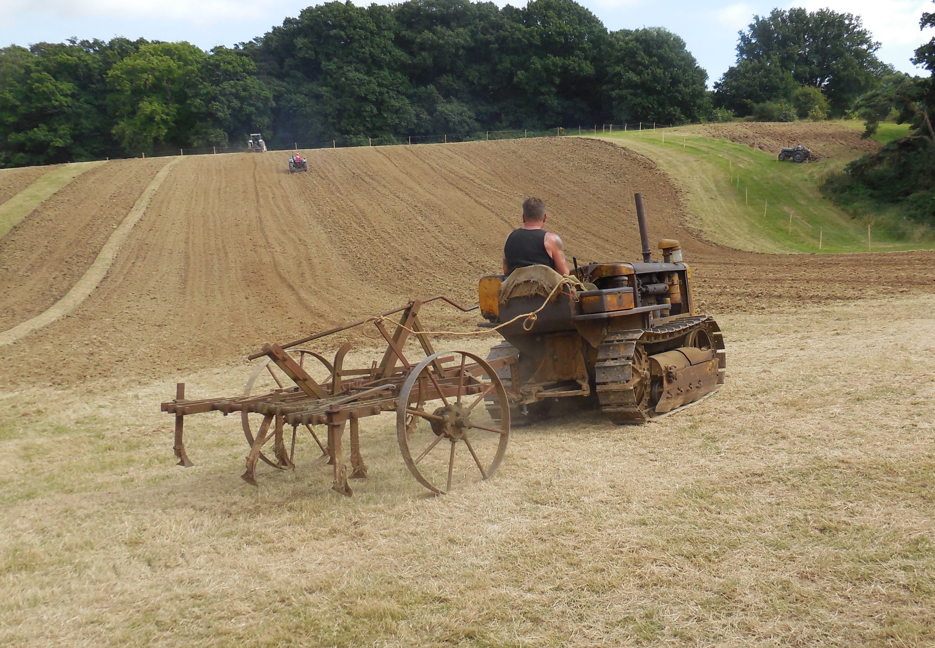 Caterpillar D2 with cultivator